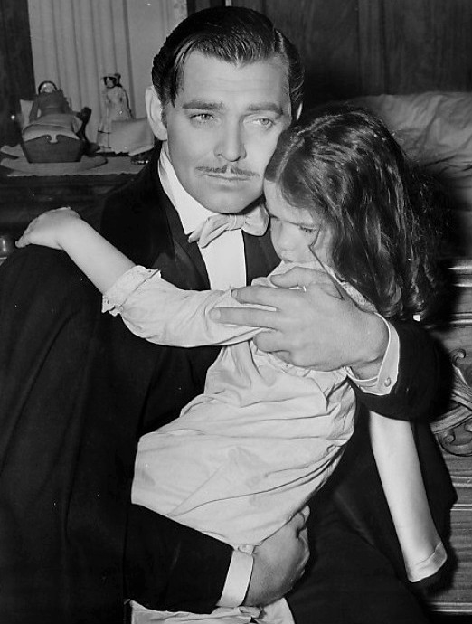 Photo of Clark Gable as Rhett Butler and Cammie King as Bonnie Blue Butler from Gone With the Wind.